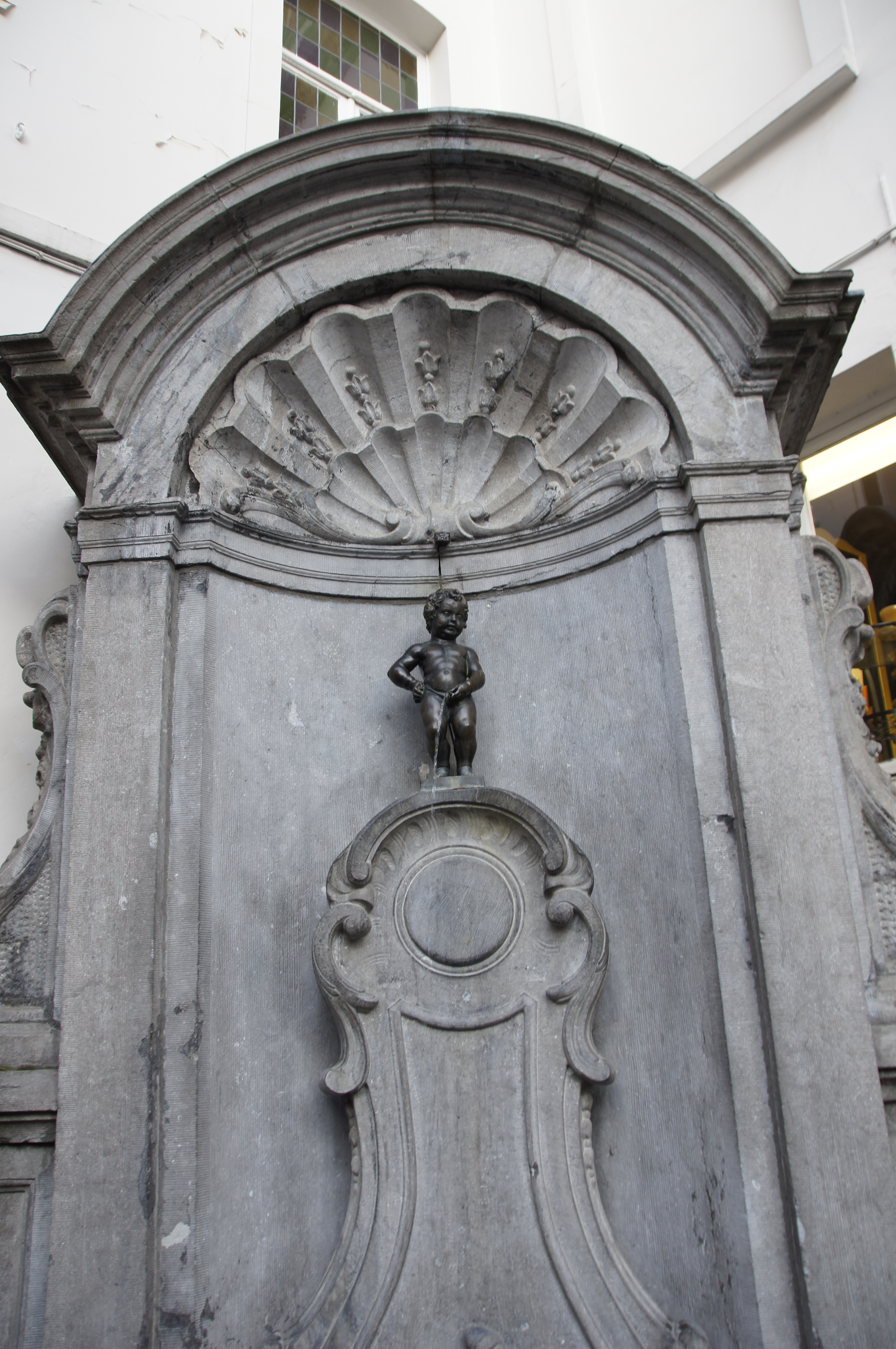 The statue Manneken Pis located in Brussels.